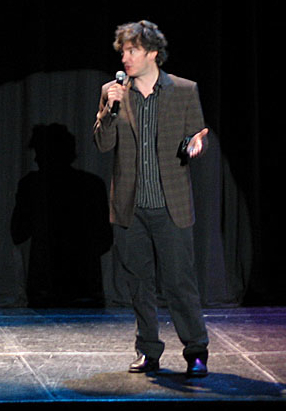 Dylan Moran during a performance the Comedy Festival at Melbourne Town Hall.